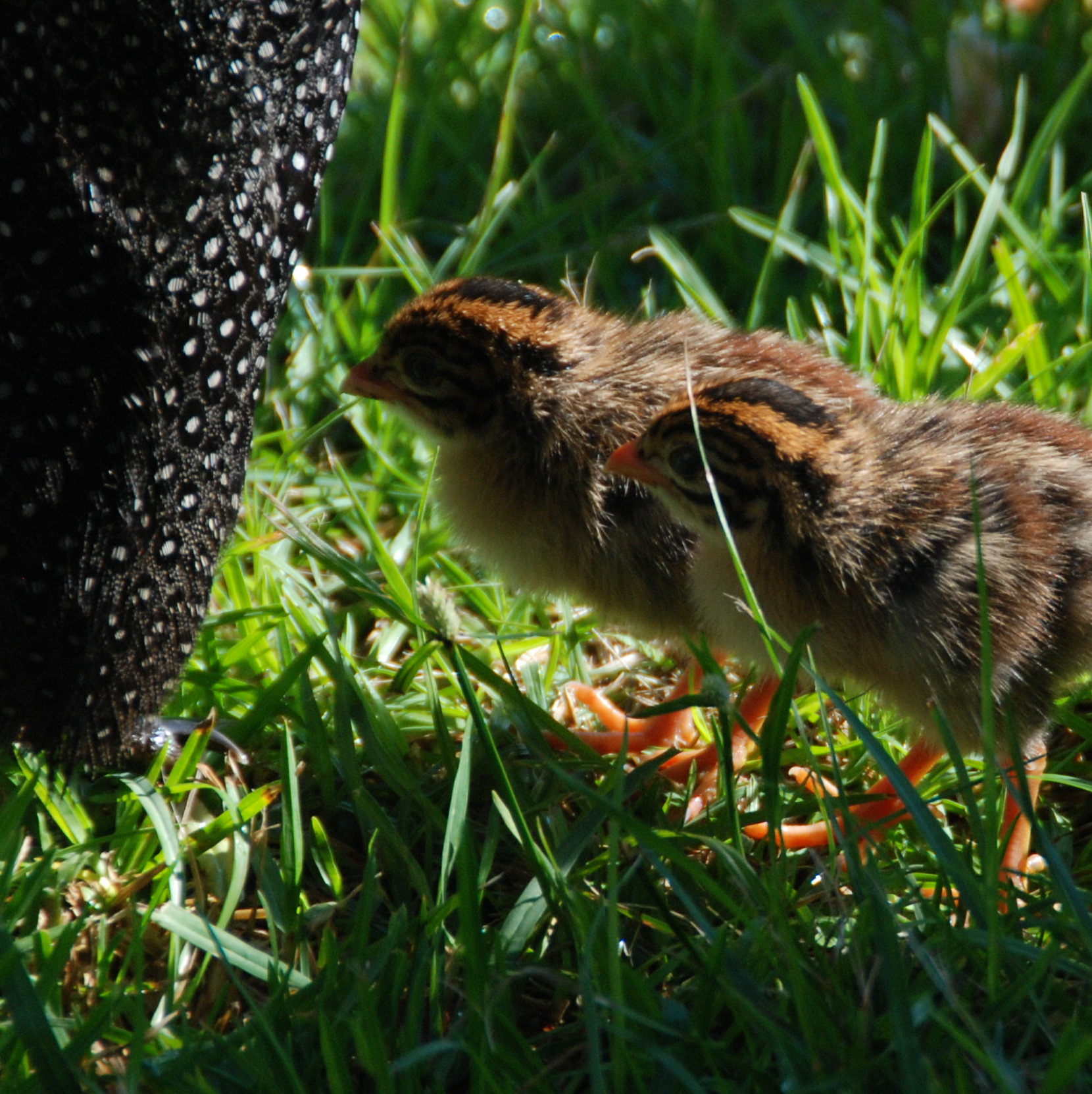 Two young Helmeted guineafowl keets with an adult (apparently domesticated) in the Injasuthi region of the Drakensberg, KZN province, South Africa